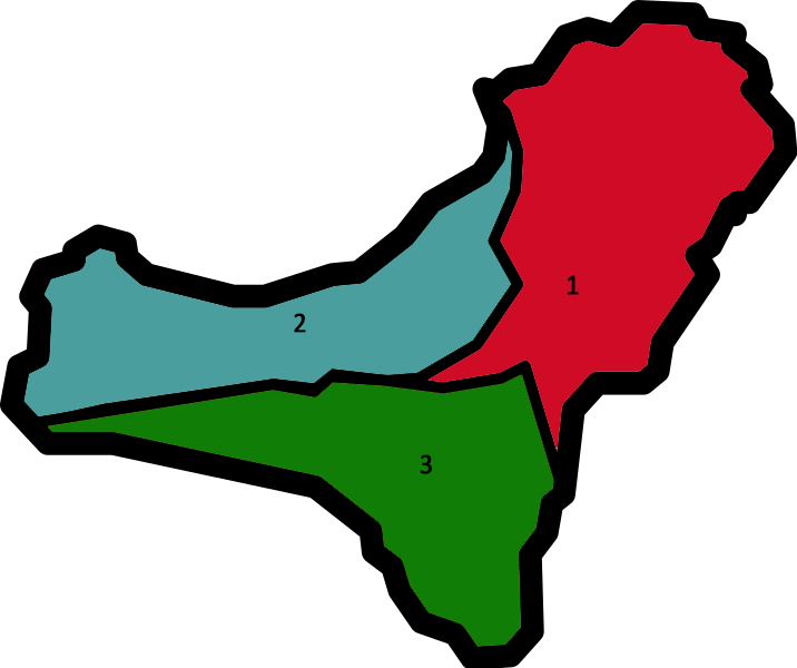 Municipalities of El Hierro, Canary Islands